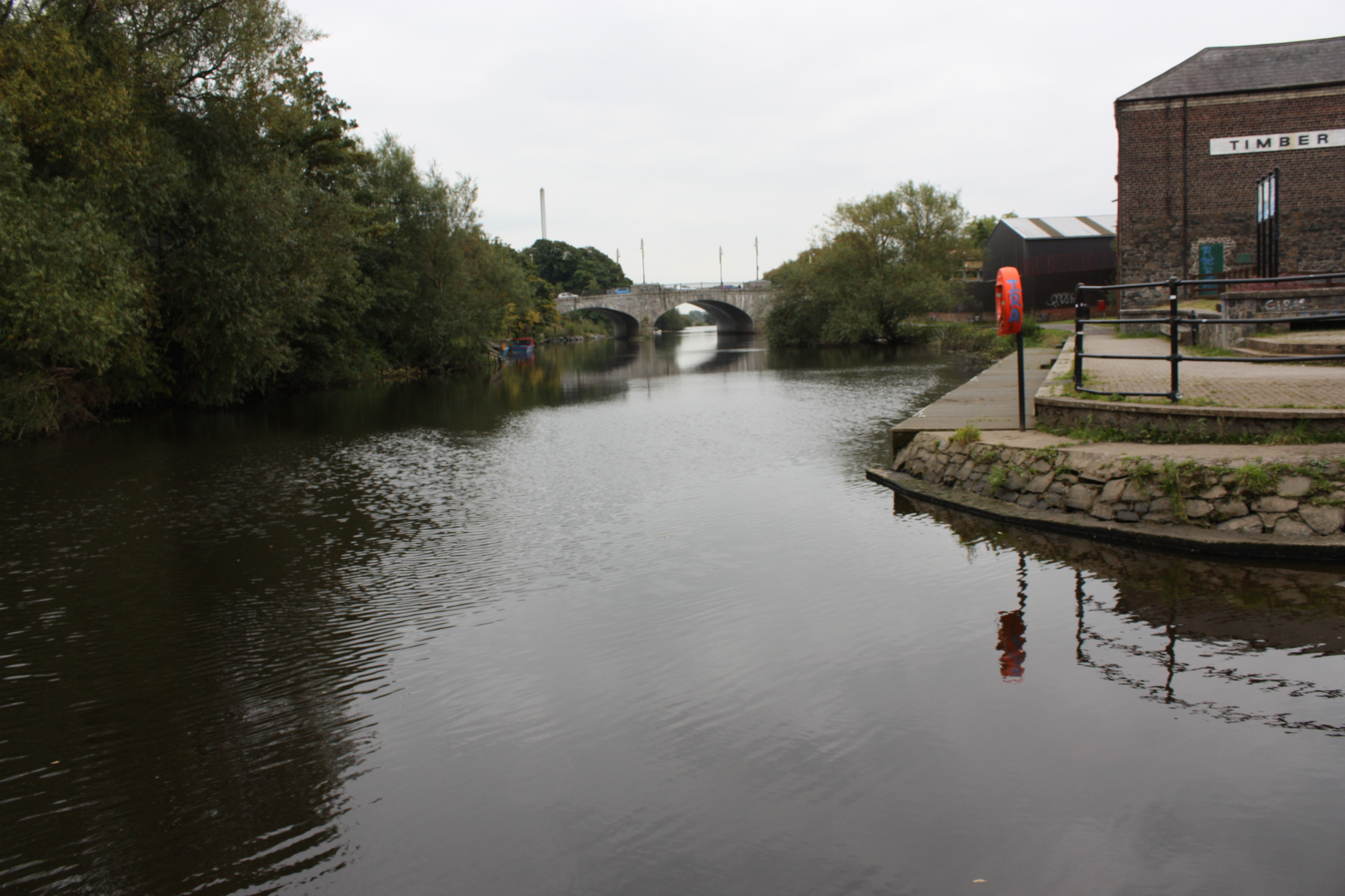 Shillington's Quay, Castle Street, Portadown, County Armagh, Northern Ireland, September 2009